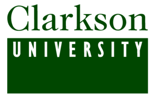 Clarkson University logo